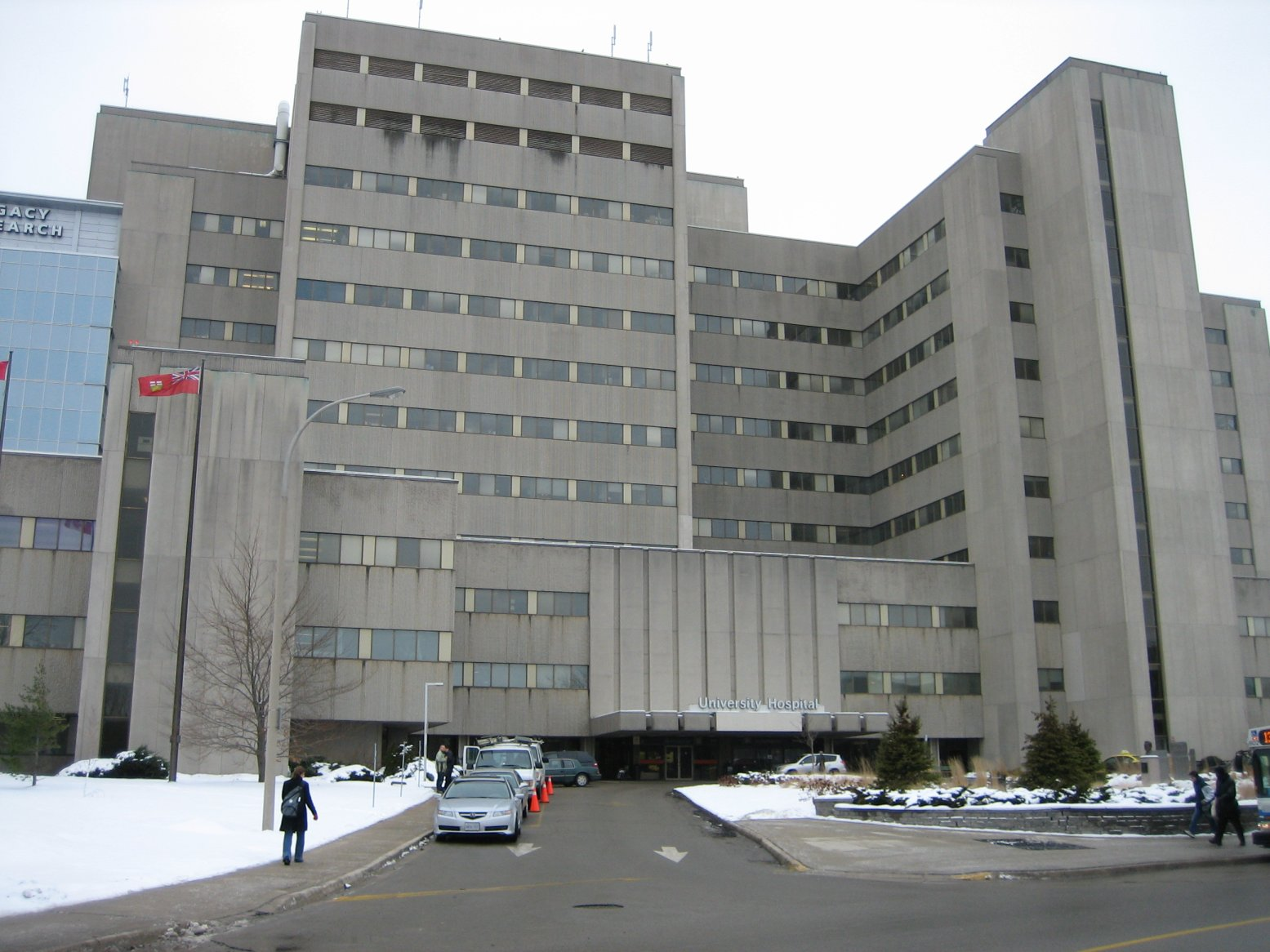 University Hospital London Ontario - 2007